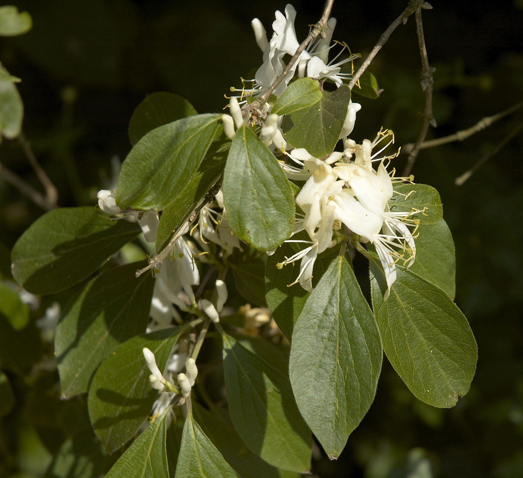 Lonicera Maackii in arboretum Belmonte, Generaal Foulkesweg 94 of the university Wageningen